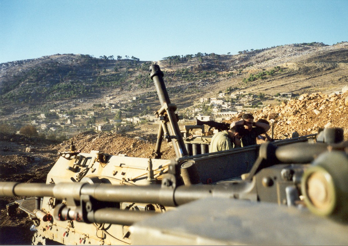 התמונה צולמה על ידי אוהד שחר תמונה של מוצב ריחן בדרום לבנון שצולמה בשנת 1998ברצועת הביטחון